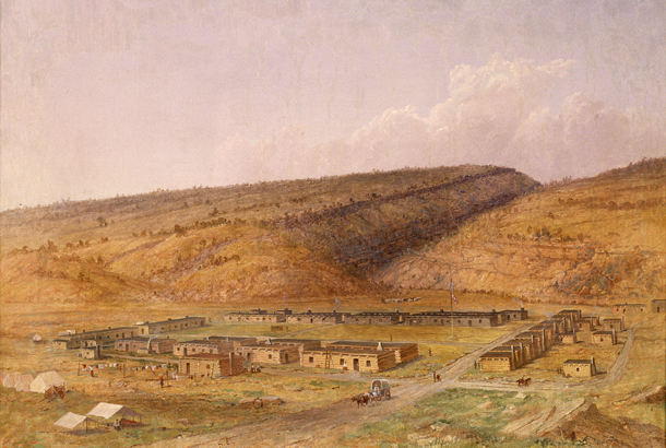 "Fort Defiance, New Mexico" (now Arizona) by Seth Eastman, Oil on canvas – Sight measurement: Height 21.63 inches (54.9 cm), Width 31.5 inches (80 cm) – Signature (lower left center): S. E. / 187[3] – Cat. no. 33.00011.000